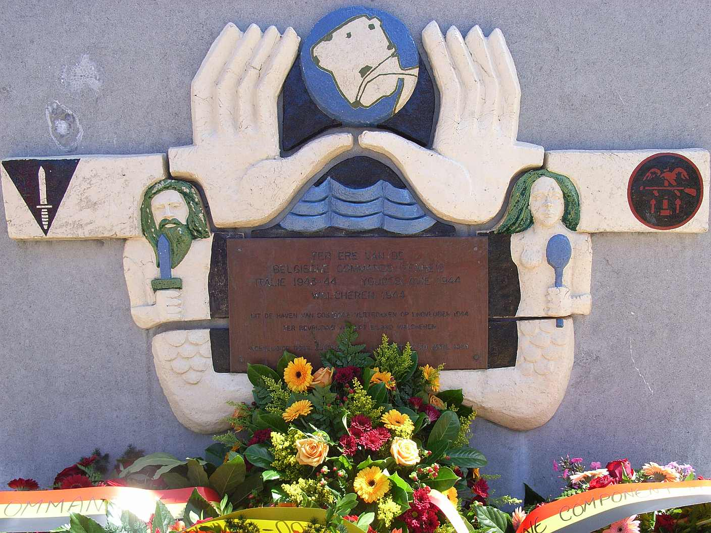 memorial for a belgian commando taking part in the Battle of the Scheldt estuary leaving the harbour of Ostende to free the island Walcheren in November 1944; Ostende Harbour